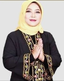 Ketua TP. PKK Kabupaten Bandung